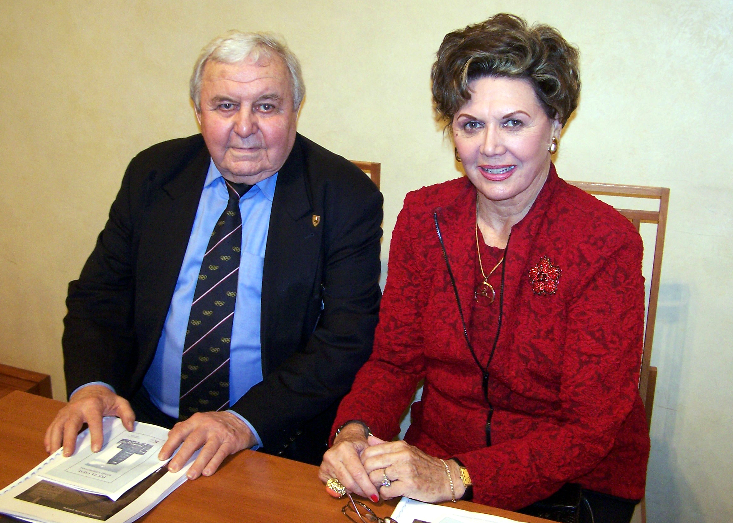 Alena Vrzáňová and Augustín Bubník in the Senate of the Czech Republic during the Mene Tekel festival.